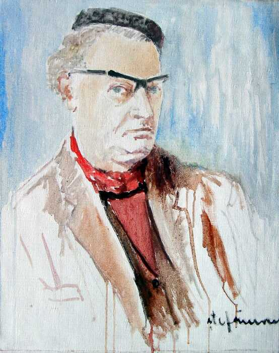 Self Portrait by George Stefanescu, 1979